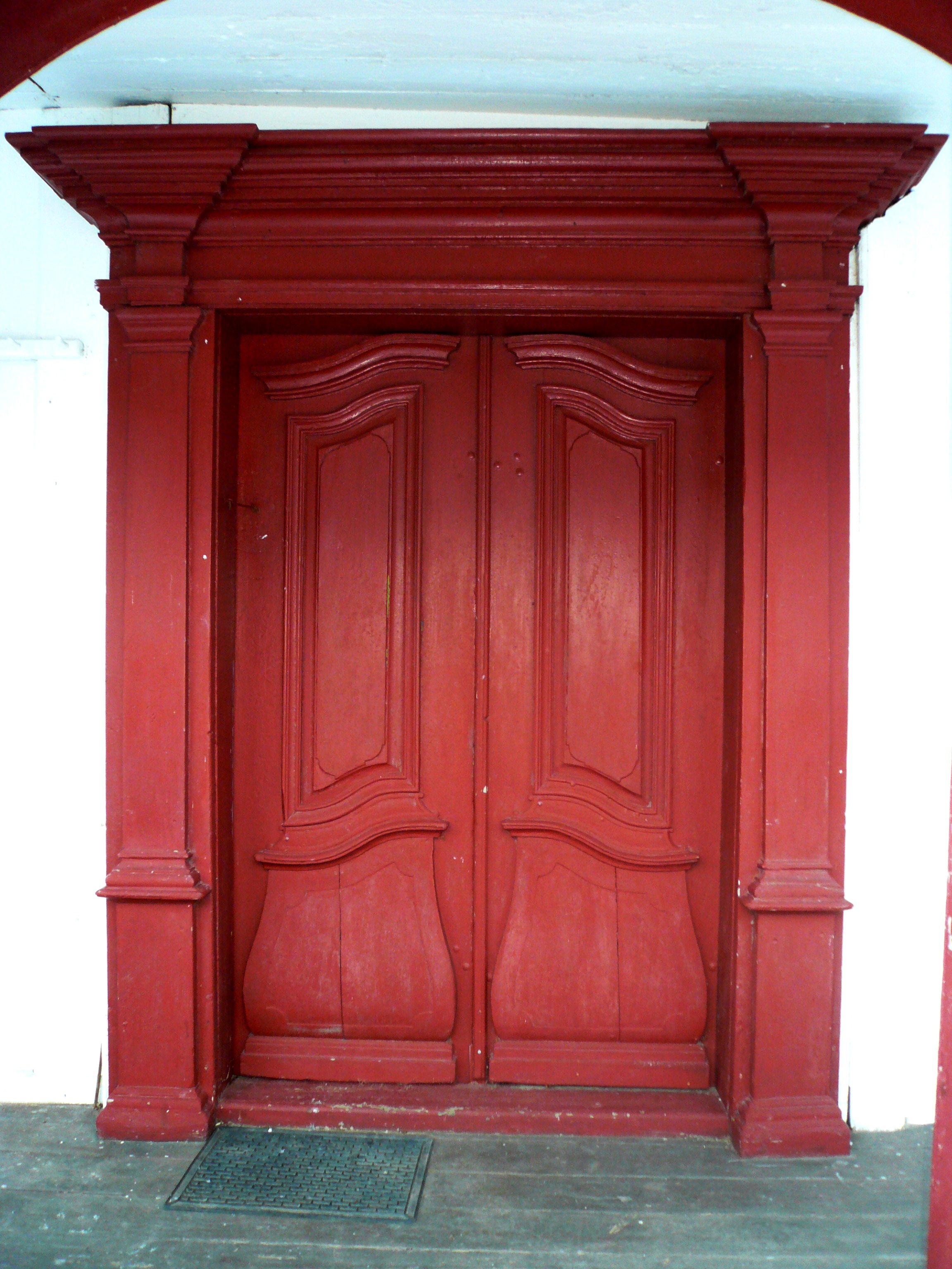 Door at Hesthamar, Ullensvang, Norway